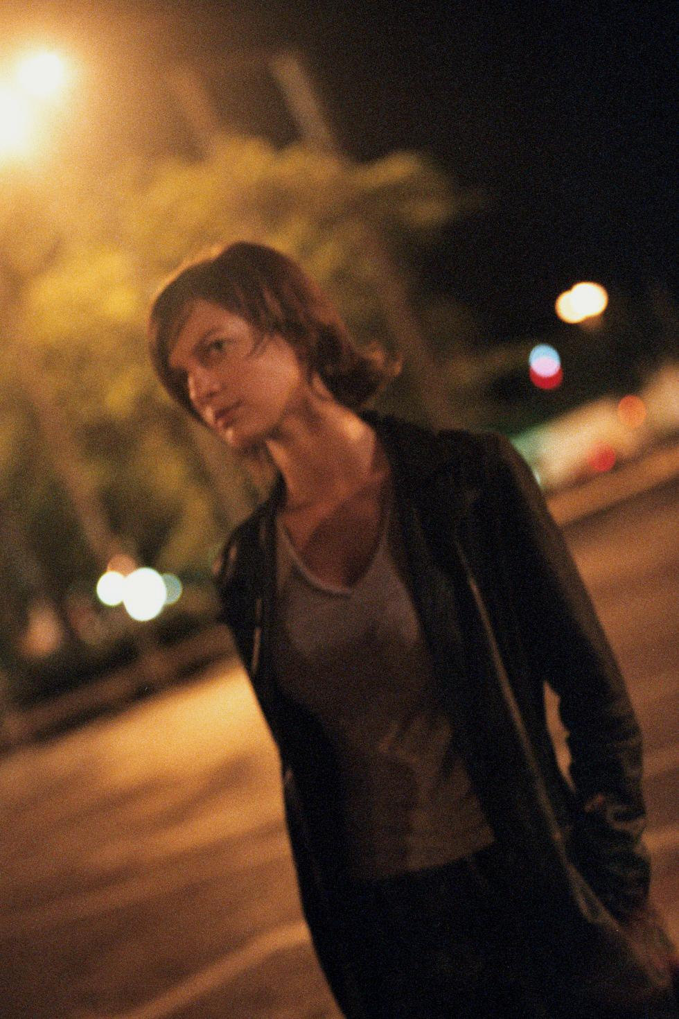 Frozen Days ("Yamim Kfuim") publicity still